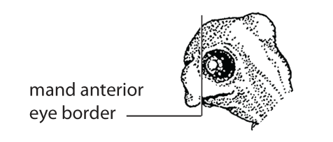 Standard Event System character depiction